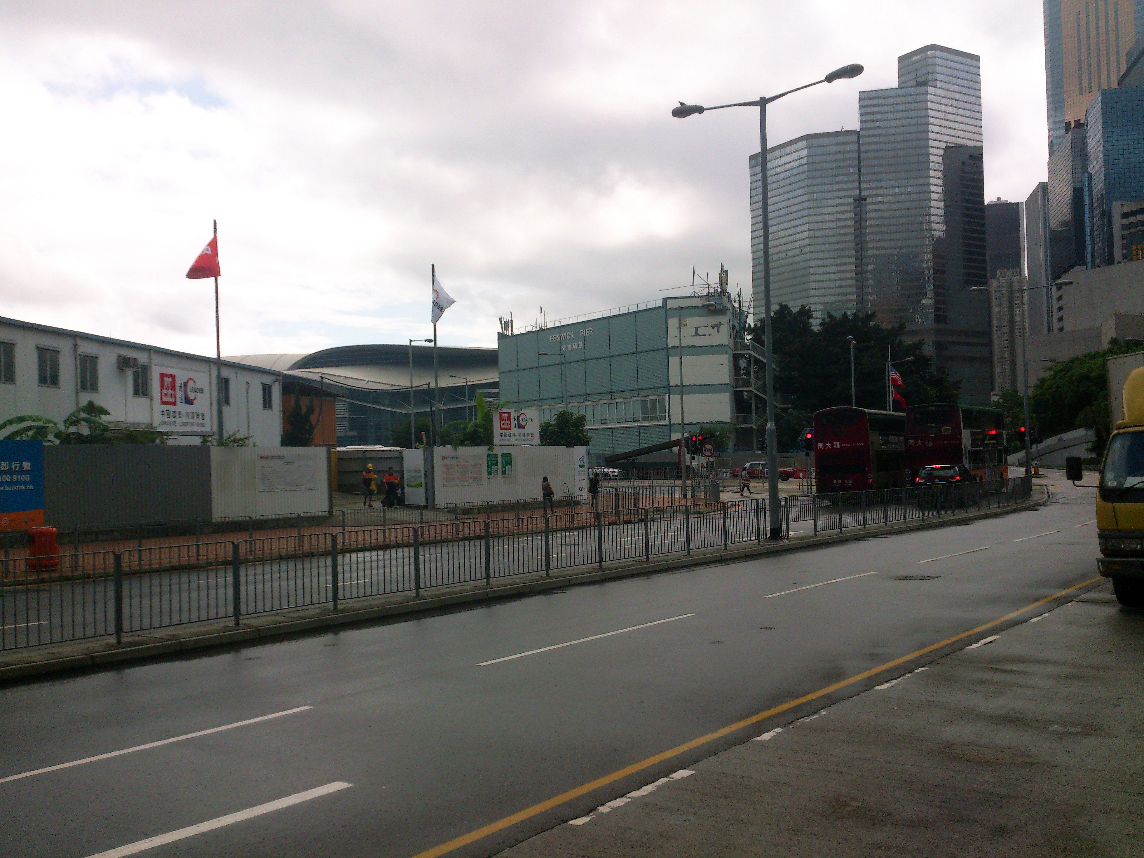 Lung Wui Road